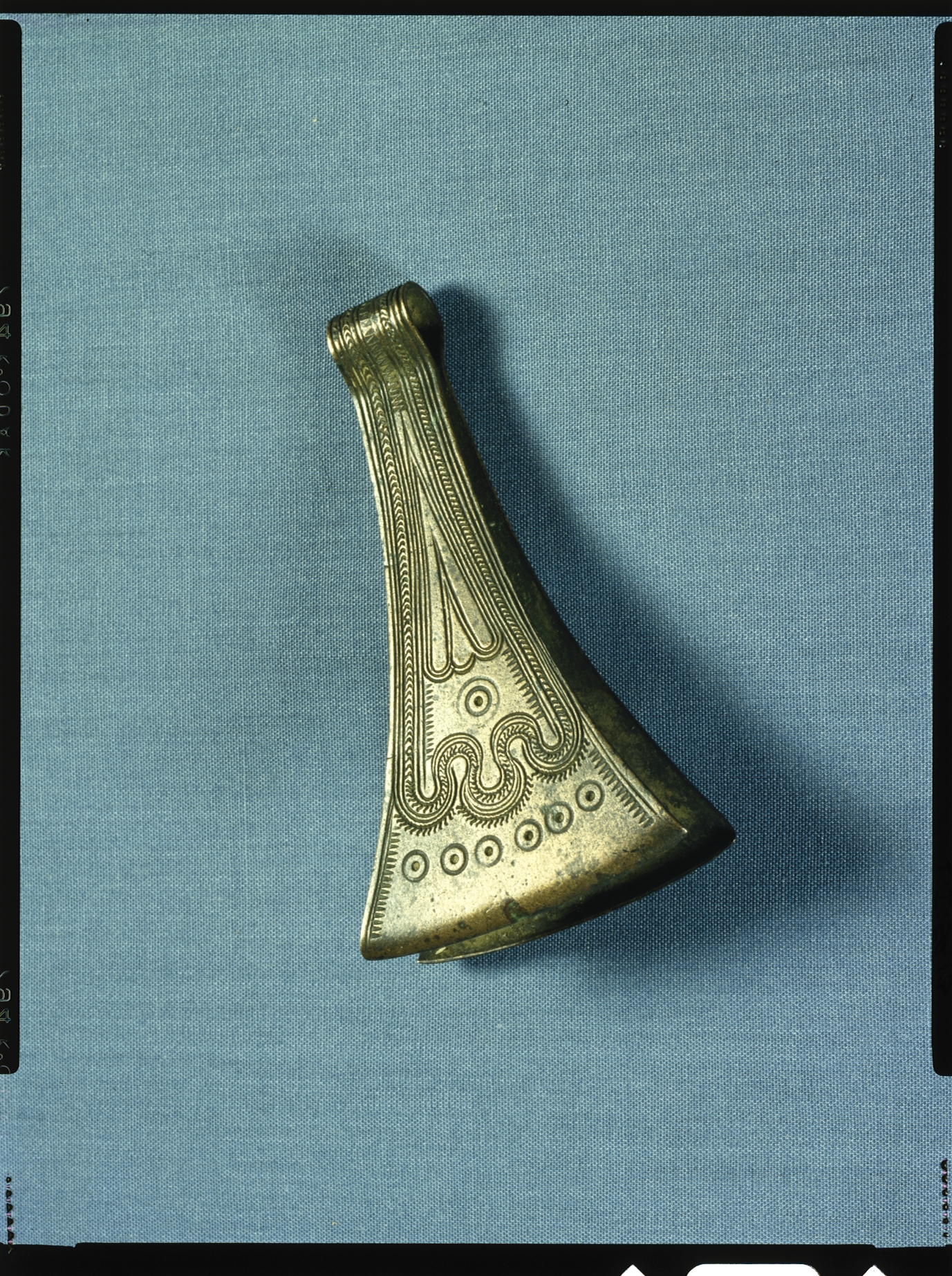 Tweezers from Fyn, Denmark, younger bronze age